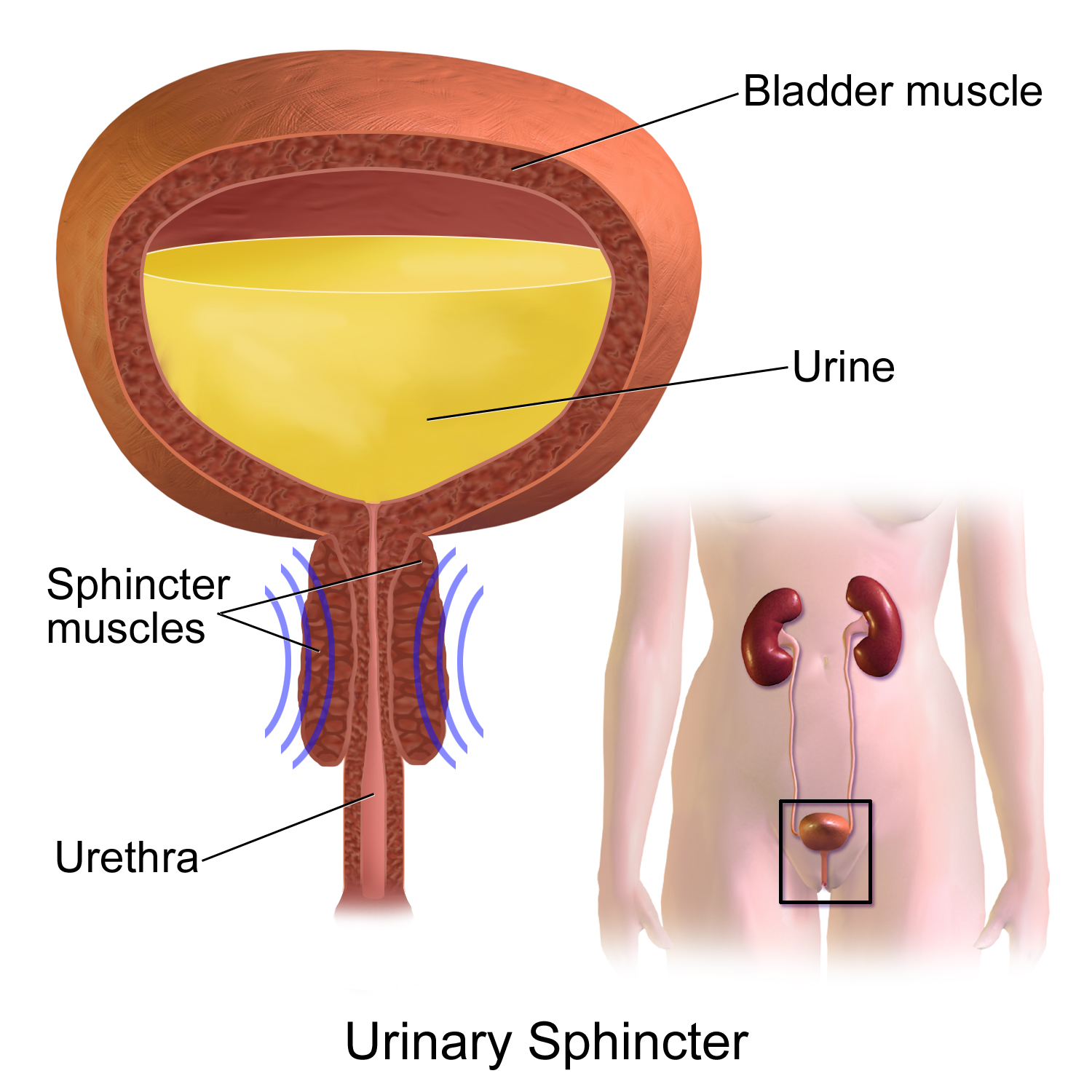 A medical illustration depicting the urinary sphincter.